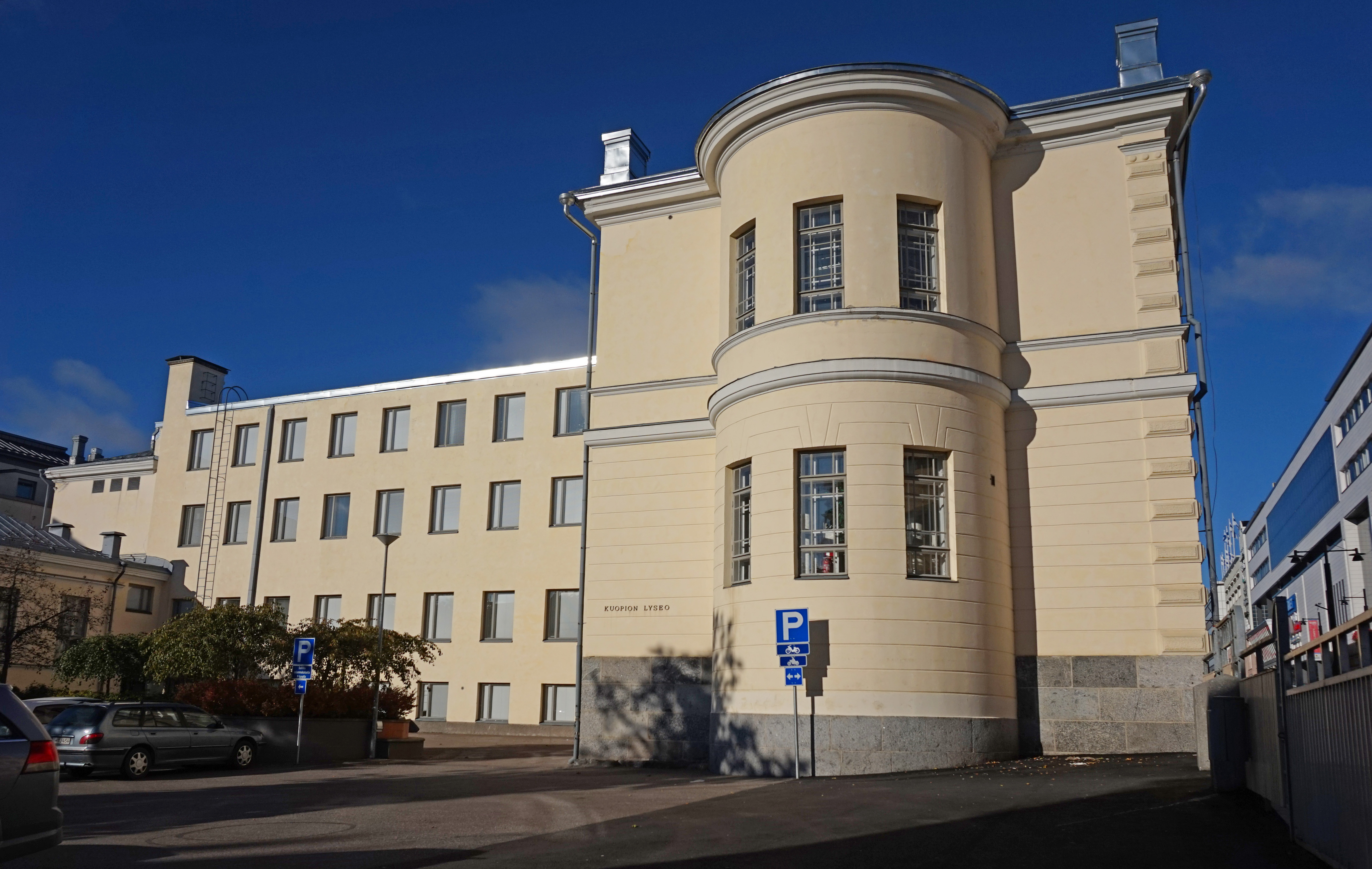 School Kuopion LyseoThis photograph was taken with a Sony ILCE-5000